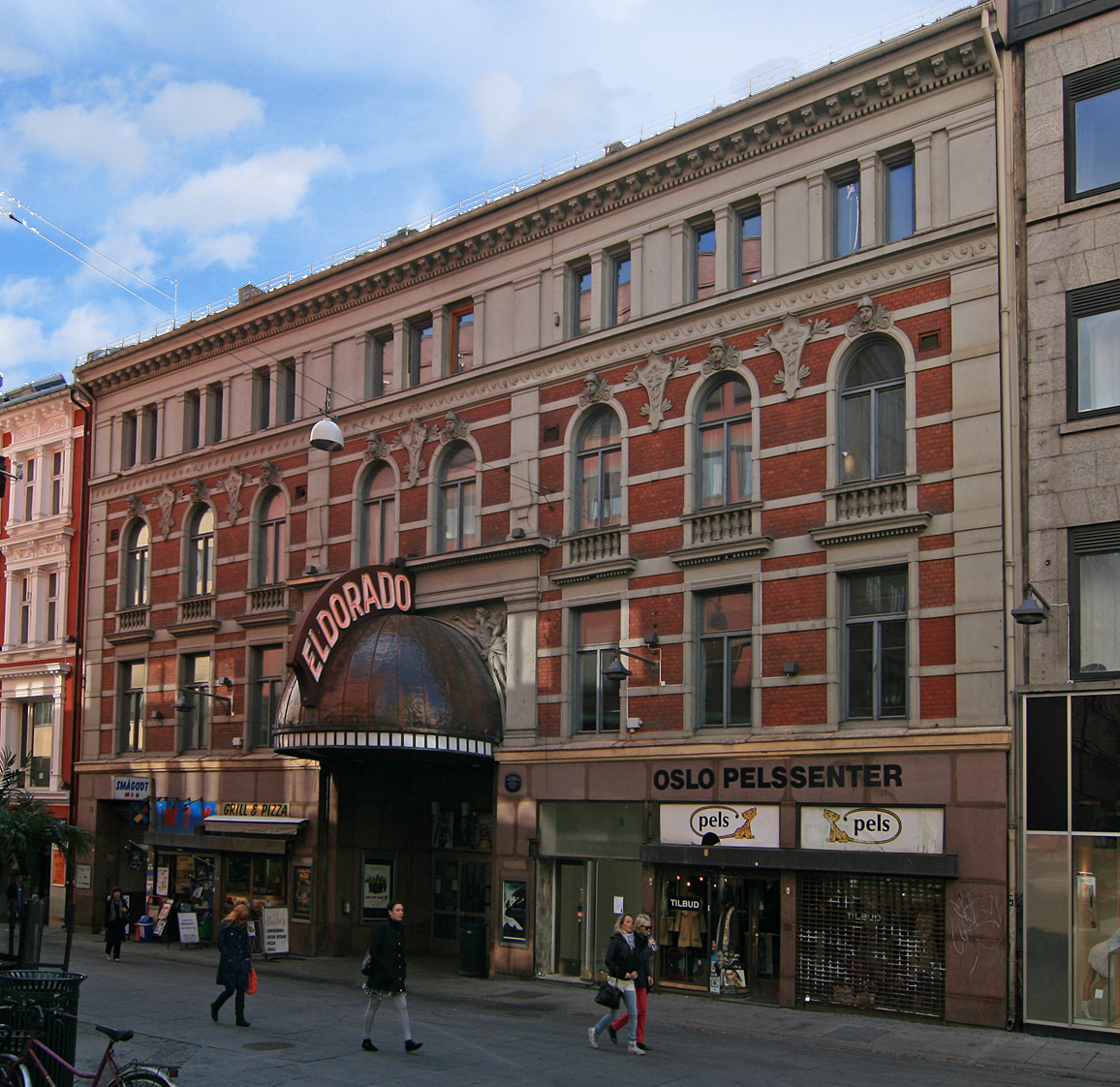 Eldorado kino, Torggata, Oslo. Built 1891. Architect Harald Olsen.